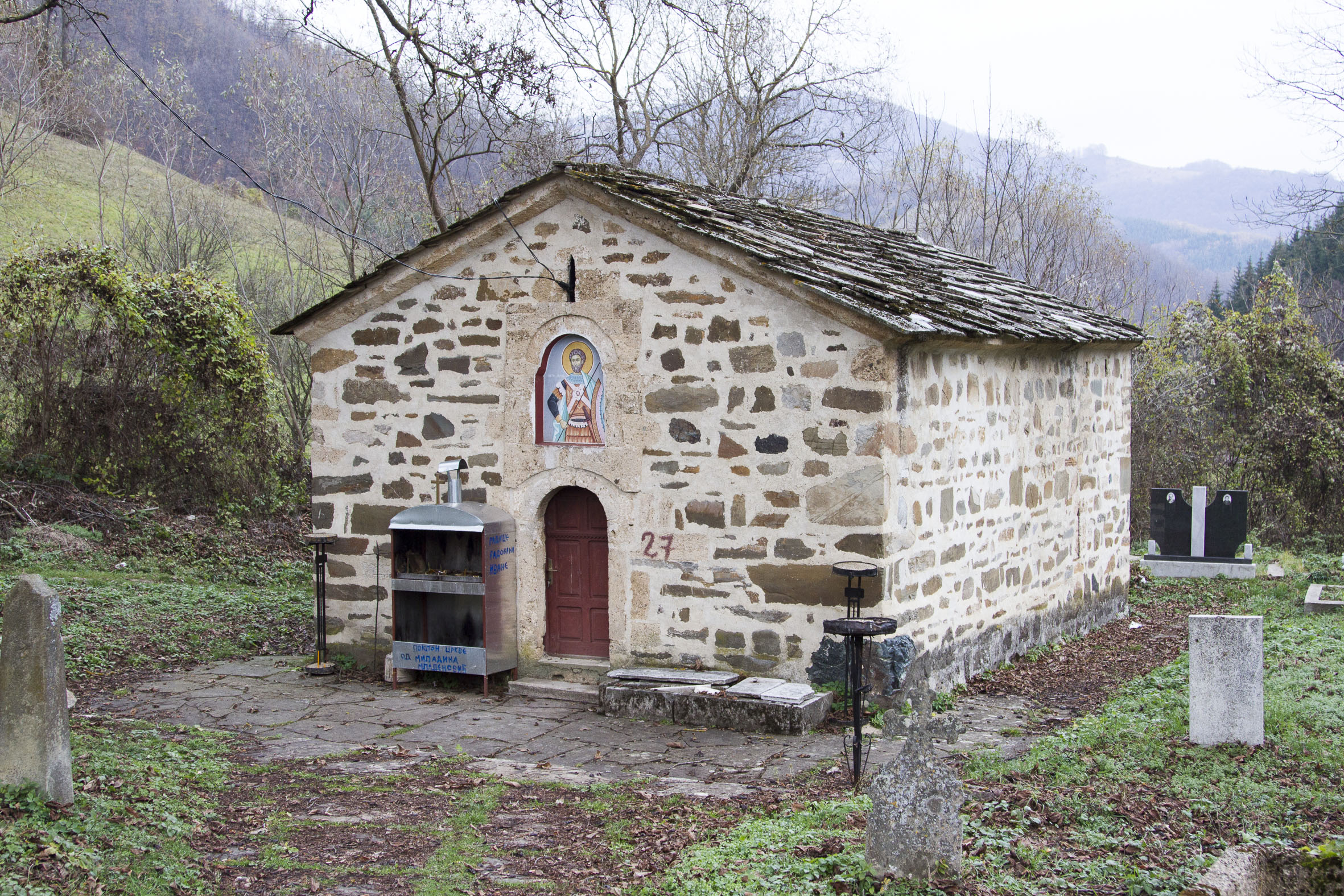 General look of Church of Saint Mine in Štava, Kuršumlija